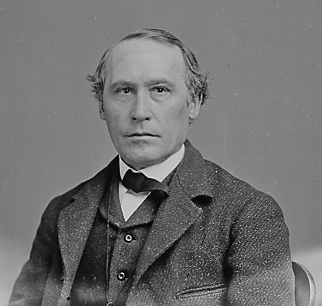 Portrait photograph of U.S. Representative, lawyer and author from Pennsylvania M. Russell Thayer